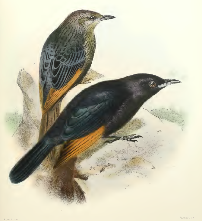 Tristram's Grackle from Henry Baker Tristram, The Survey of Western Palestine: The Fauna and Flora of Palestine (London: Committee of the Palestine Exploration Fund, 1884)